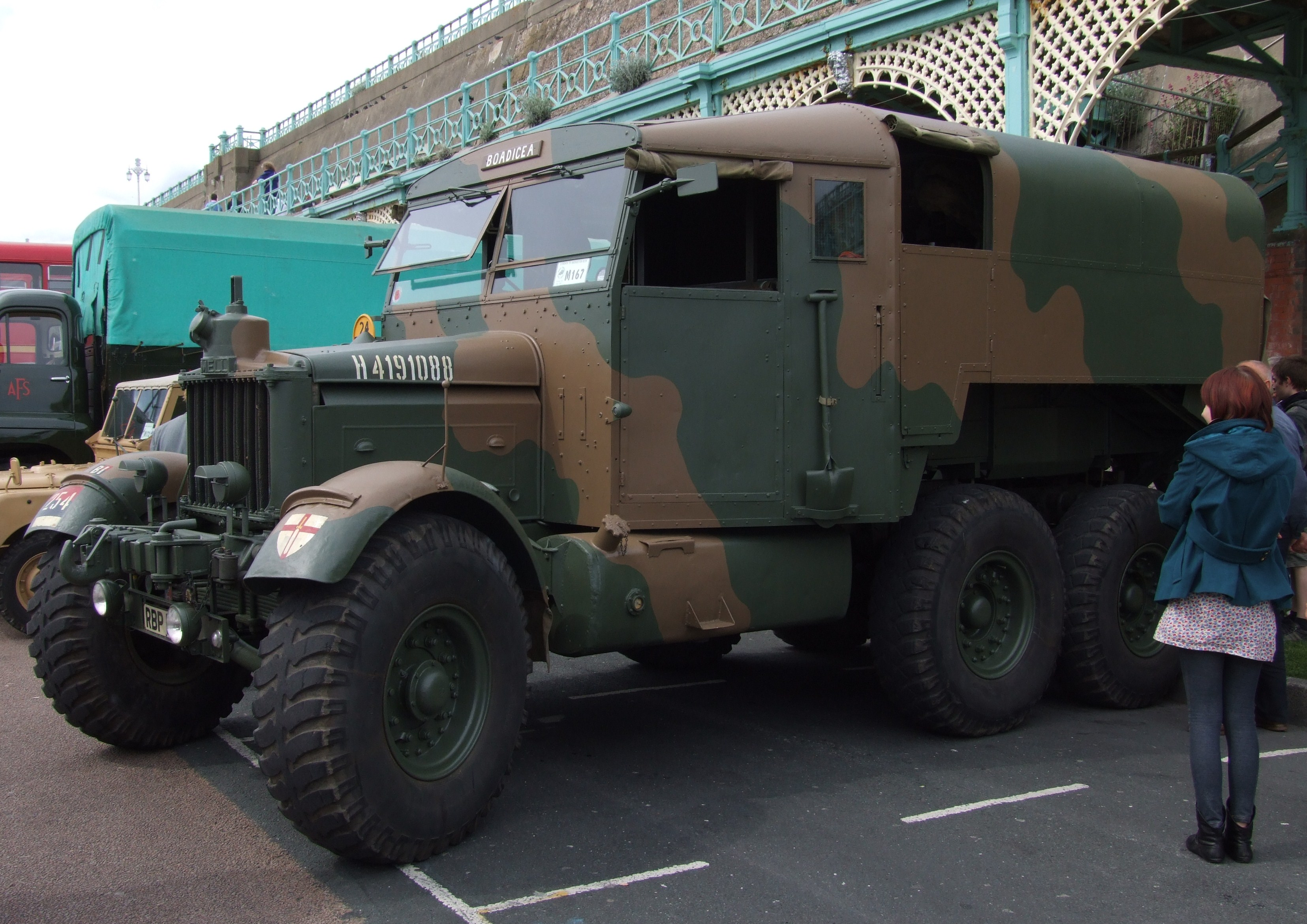 1939 Scammell R100 HAT Military Lorry to be precise.